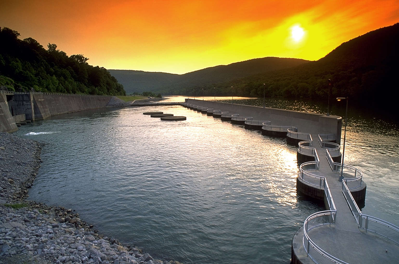 Raccoon Mountain Pumped-Storage Plant.